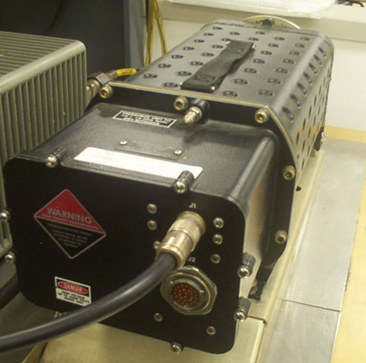 ARC-190 Antenna Coupler (CU-2275) connected to a dummy load for bench testing. Picture taken at Moffett Federal Airfield by Richard C. Wysong II in early 2003. Uploaded by the same in 2007. Declared public domain by author (self).